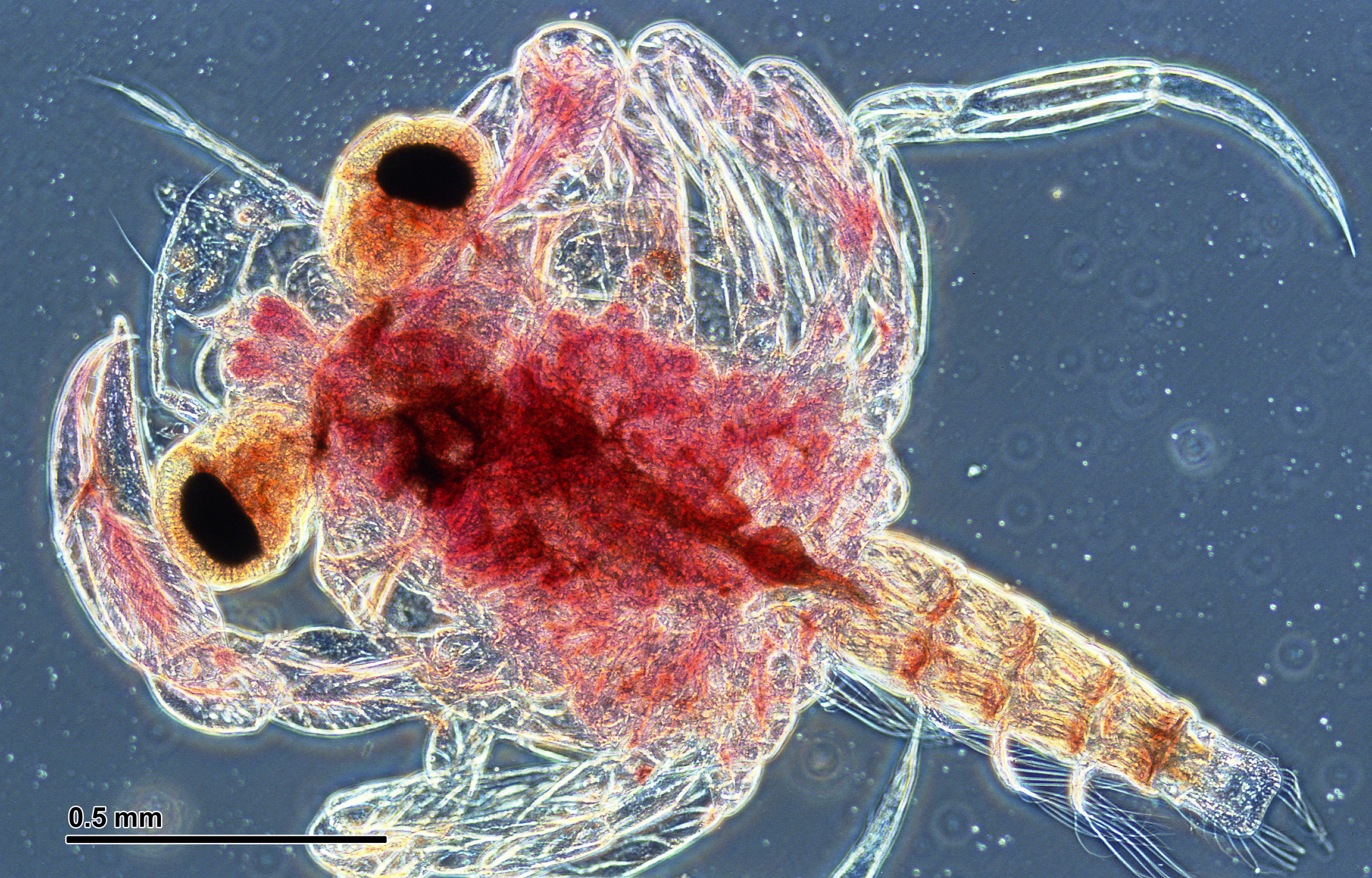 Crab larva (Brachyura). Optical microscopy technique: Negative phase contrast. Magnification: 120x (for picture width 26 cm ~ A4 format).